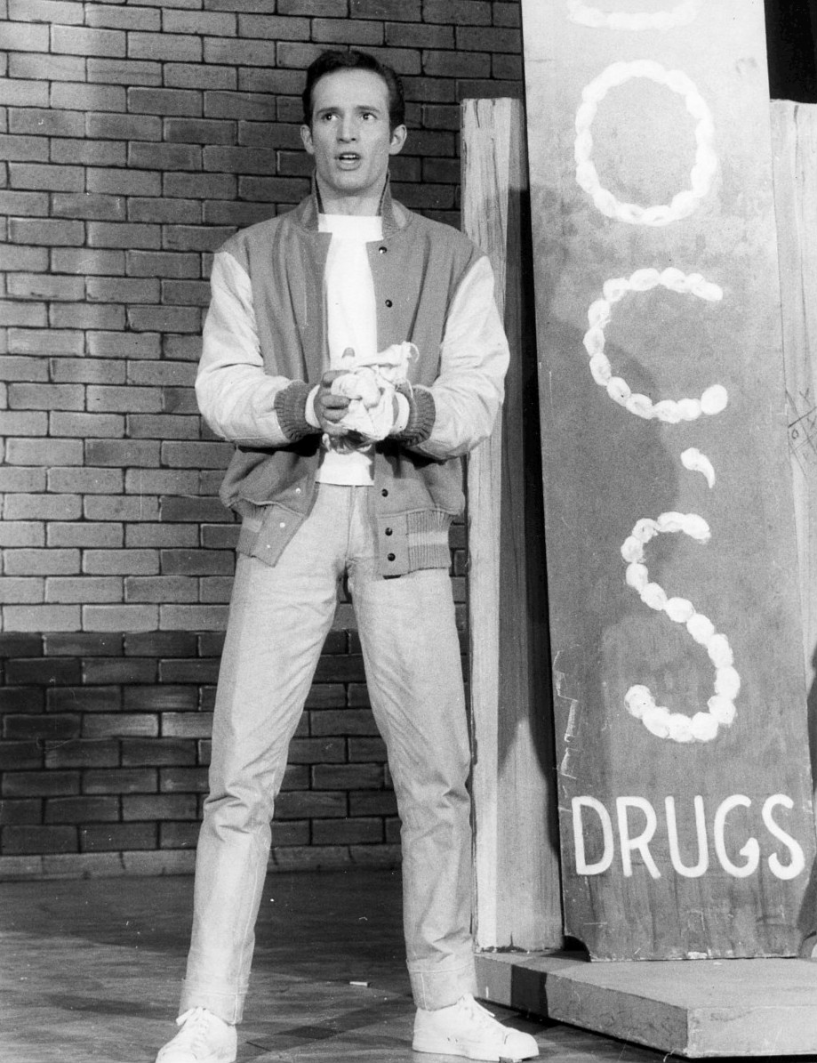 Photo of Larry Kert as Tony from the musical West Side Story.